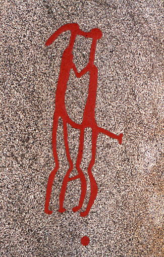 Petroglyph at Vitlycke, Tanum parish, Tanum hundred, Tanum municipality, Bohuslän, Västra Götaland county, Sweden.